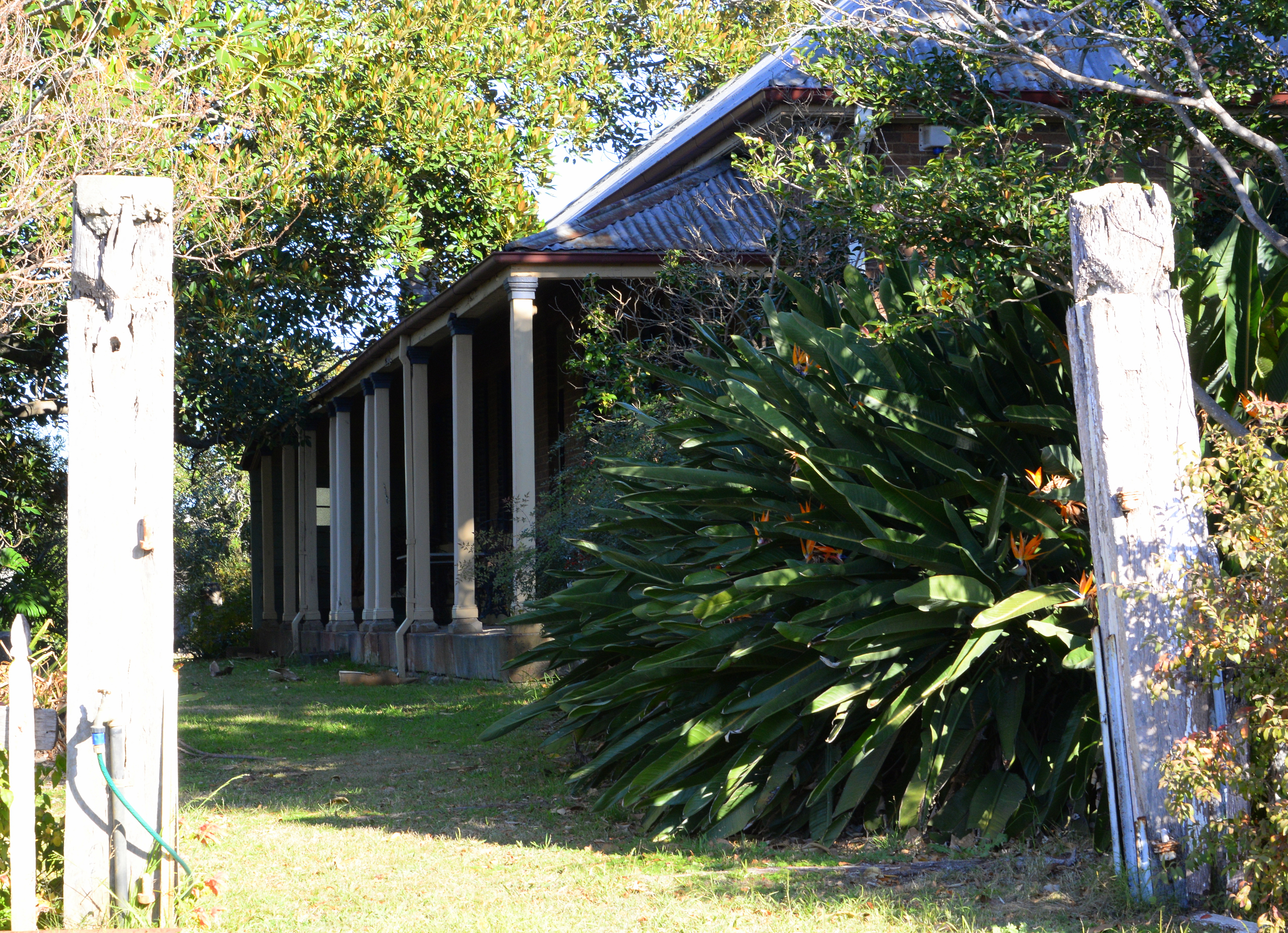 Merriville, Kellyville Ridge, Sydney